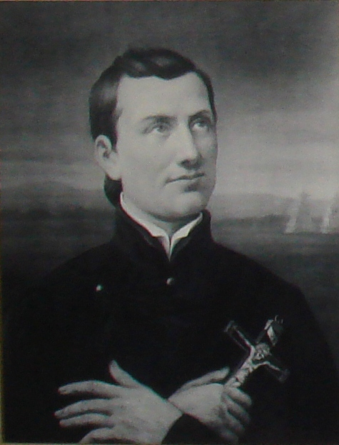 Augustin_Schoeffer_MEP